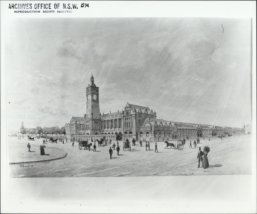 Copy of artist's impression of (a possible) Central Railway Station at St James Road, Hyde Park. Signed W. Bowry .98. Dated: 1898 Digital ID: 4481_a026_000949 Rights: We'd love to hear from you if you use our photos. Many other photos in our collection are available to view and browse on our website using Photo Investigator.